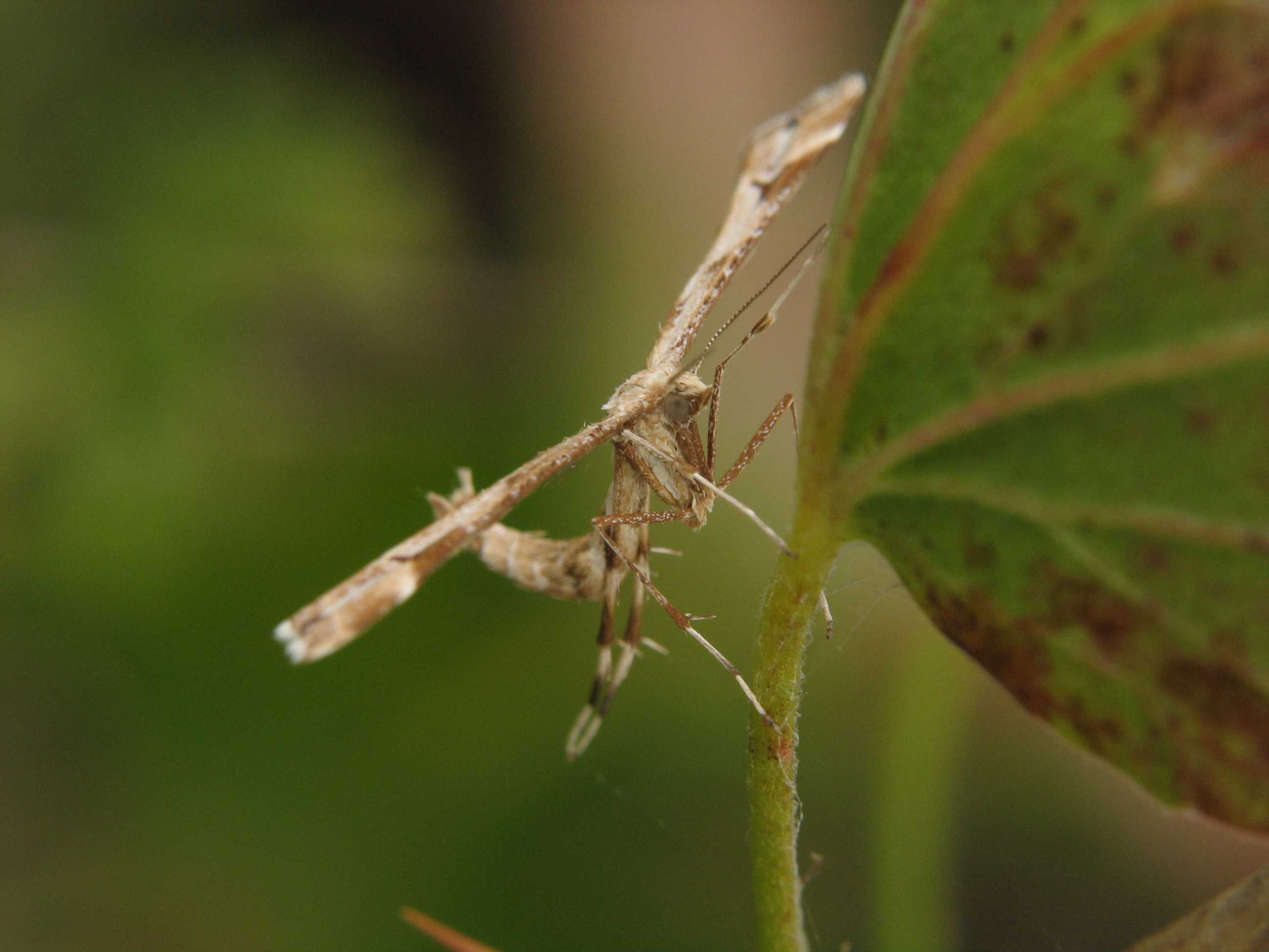 Platyptilia gonodactyla, Location Zgierz (Słupsk County, Pomeranian Voivodeship)